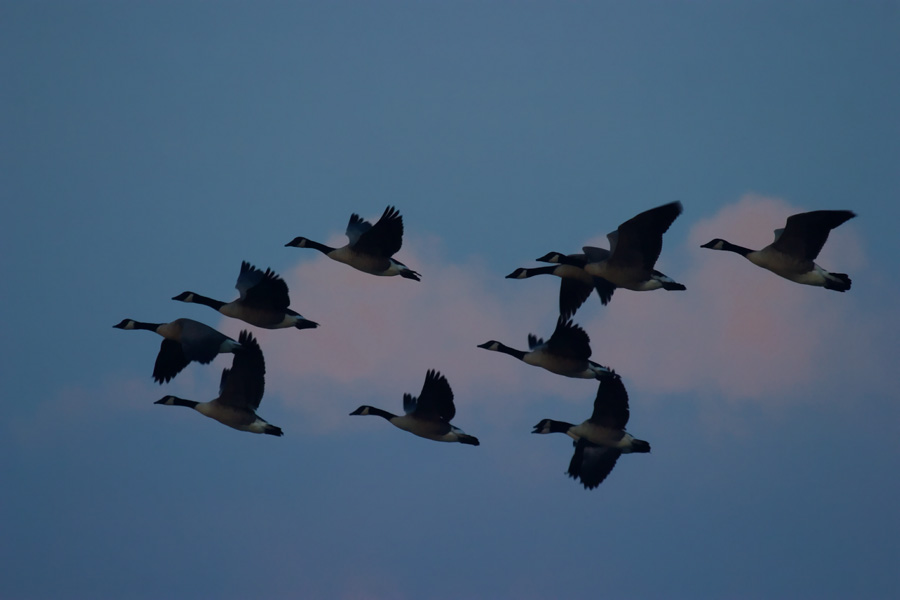 Jerry Segraves shot these geese as they flew into the dawn at Quivira National Wildlife Refuge